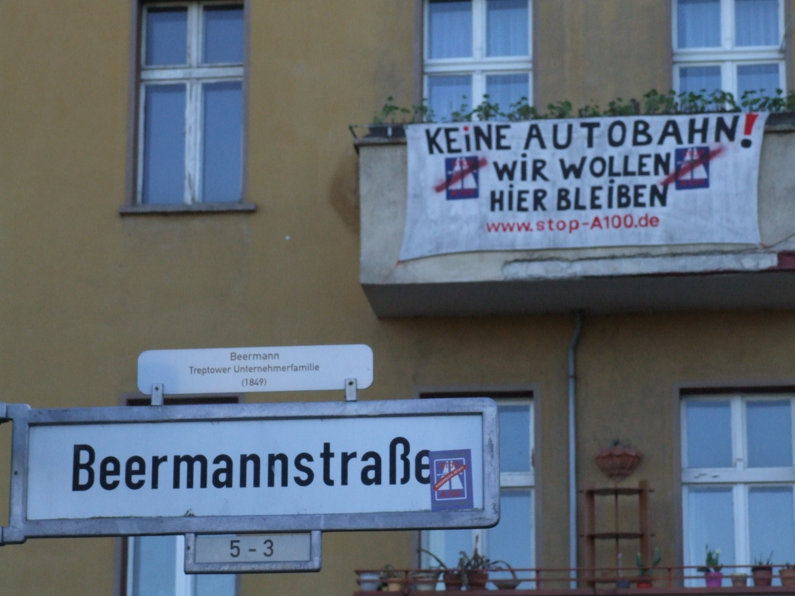 Demonstration against the A100 highway throug Berlin